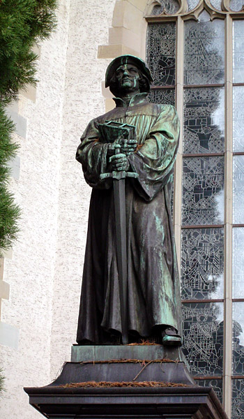 Statue of Huldrych Zwingli, Zürich